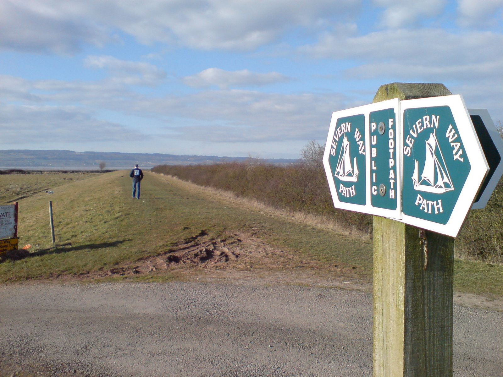 Severn Way Footpath at Oldbury Looking North - further on it curves round towards Oldbury nuclear power station